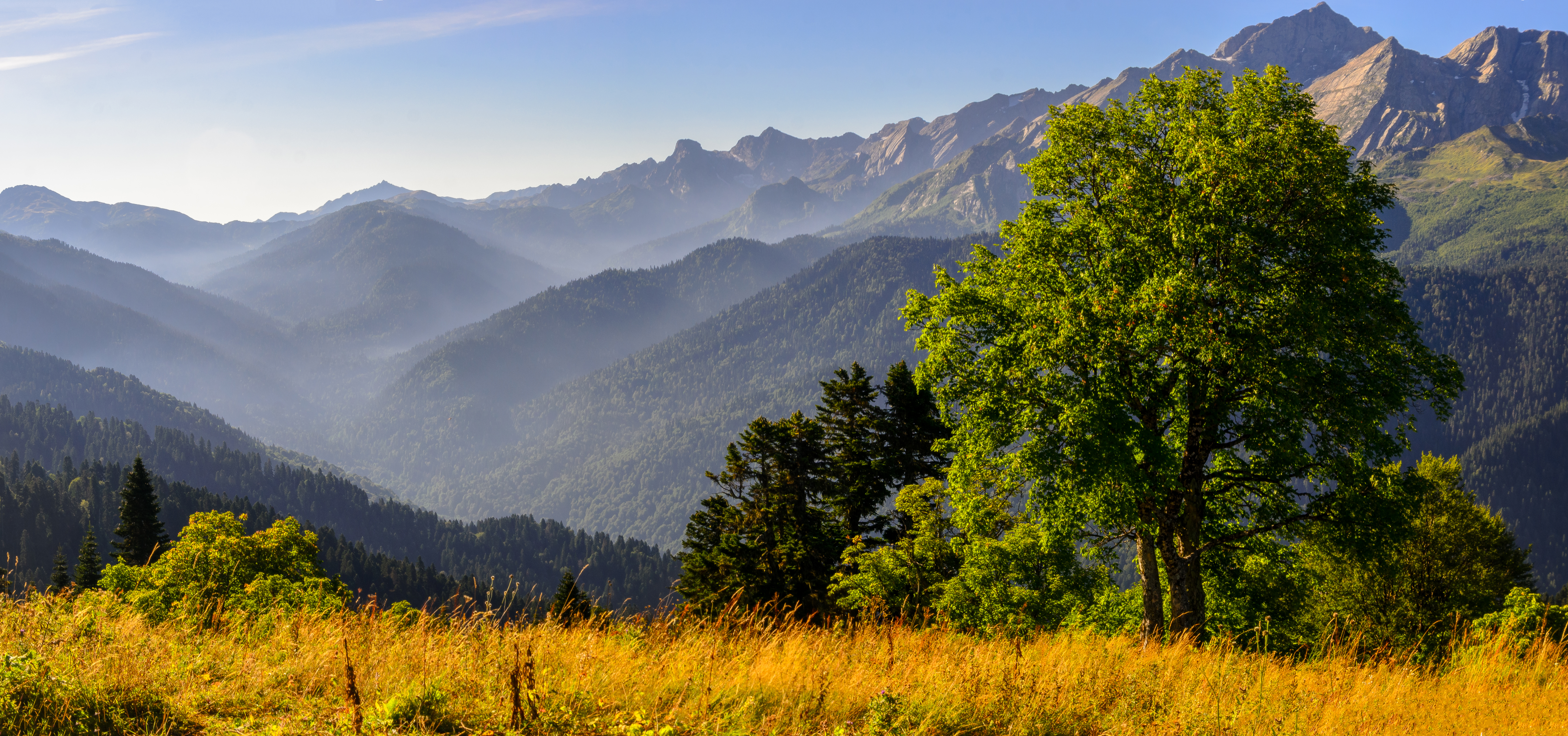 Aishkho Pass, Caucasus Nature Reserve, Krasnodar Krai, Russia This image is related to the protected area of Russia number 2300430